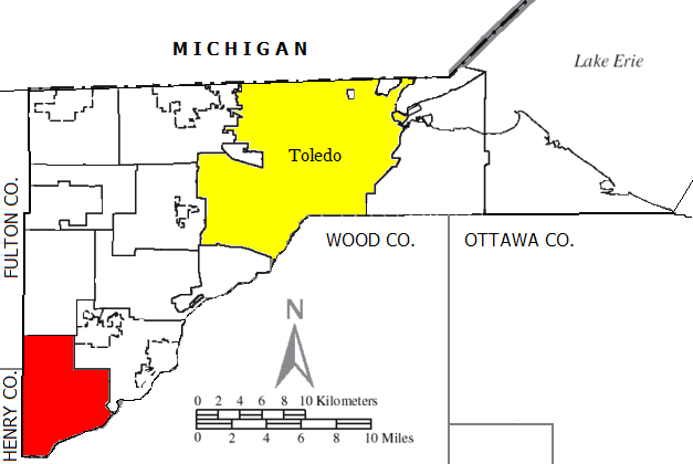 Made by the US Census and modified by myself